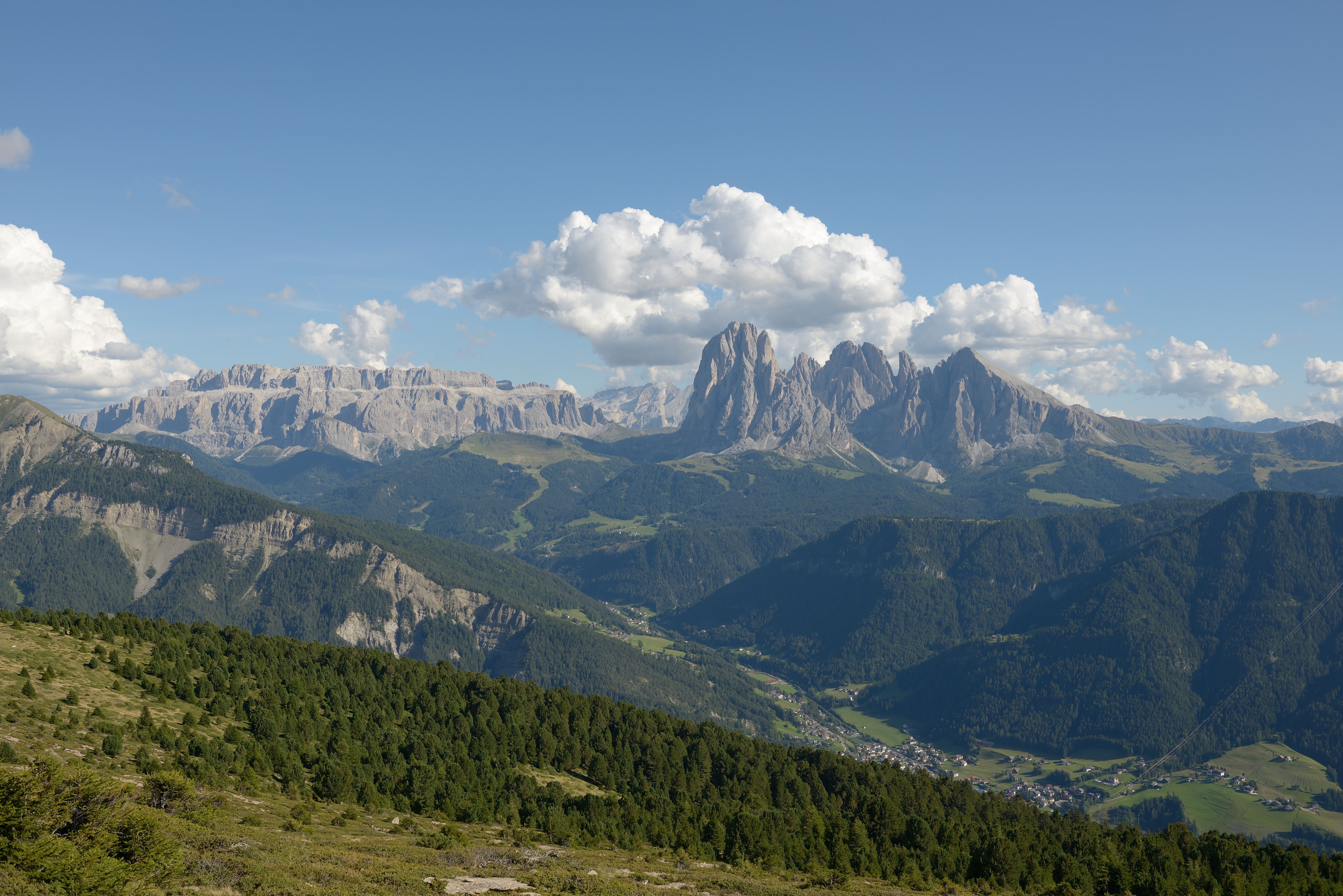 Val Gardena with the Saslonch and Sella group in the Dolomites from Resciesa, South Tyrol